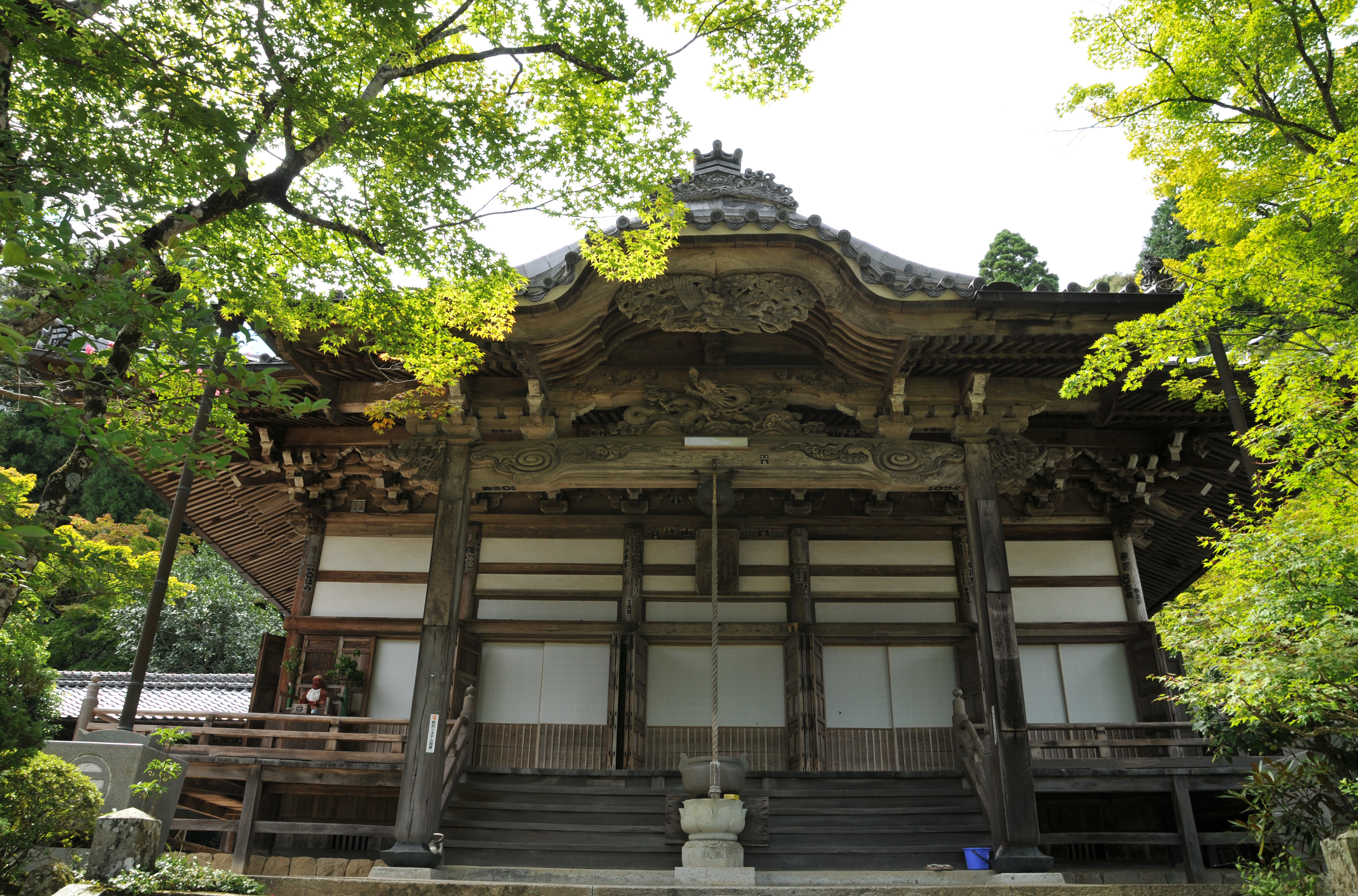 Main temple, Kongōｊō-ji